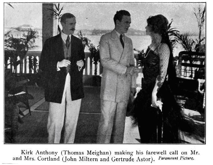 Still from the American film The Ne'er Do Well (1923), Gertrude Astor with Thomas Meighan and John Miltern.